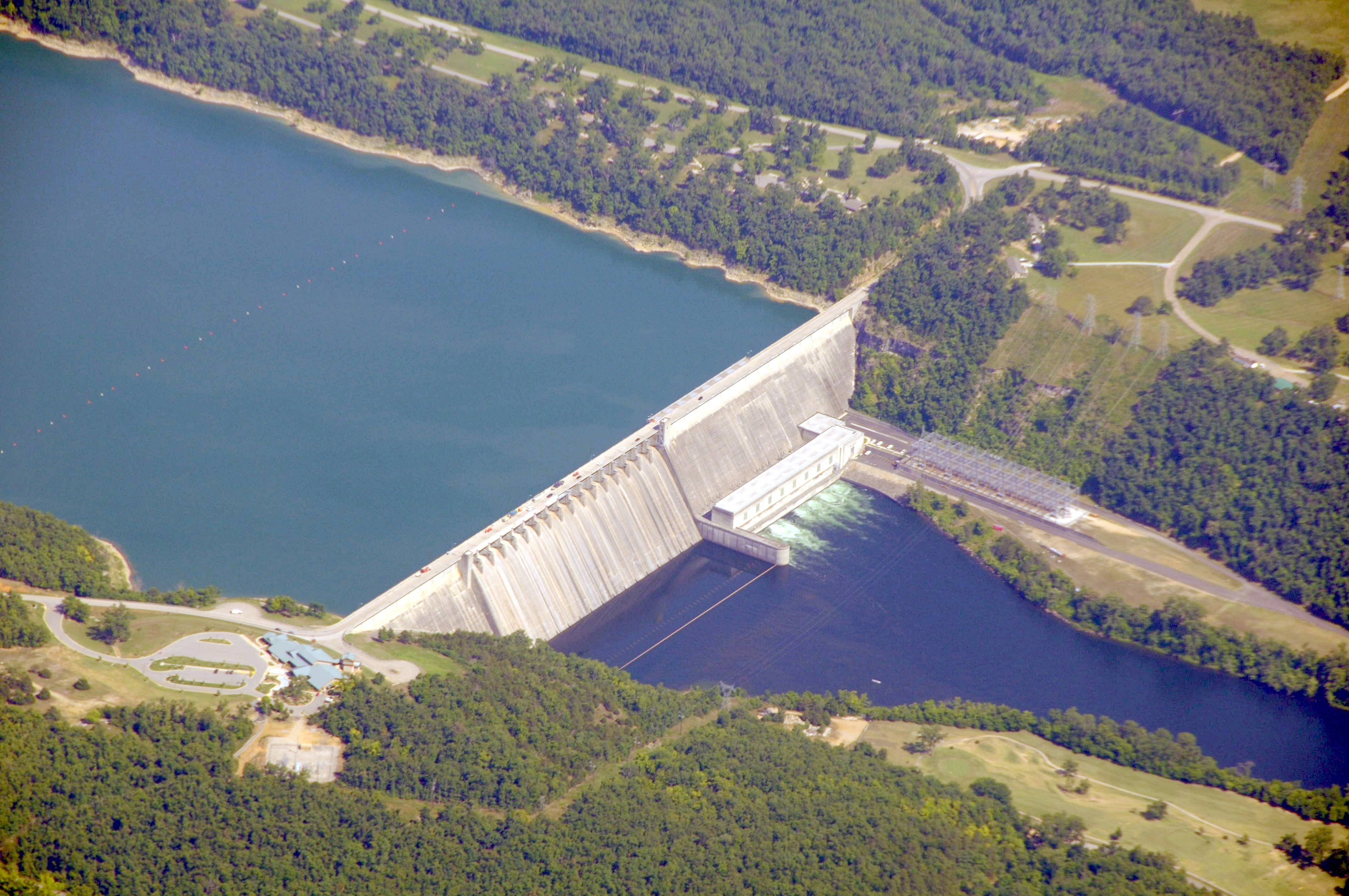 Aerial Photo of Bull Shoals Dam on White River Arkansas June 13, 2010, to replace a crappier one I took earlier in the year